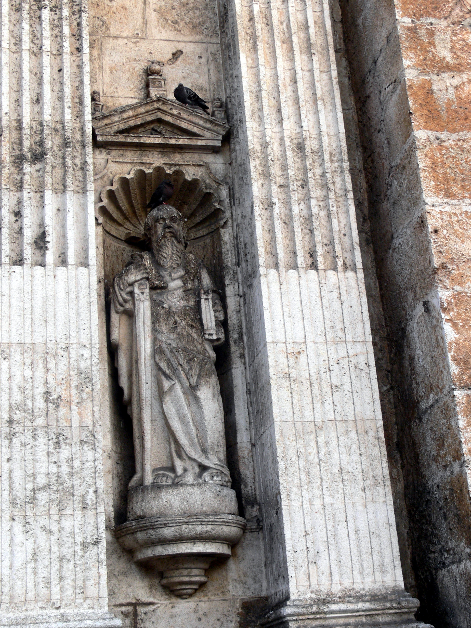 Merida ( Yucatan ). Cathedral of San Ildefonso: Statue of Saint Paul at the facade.